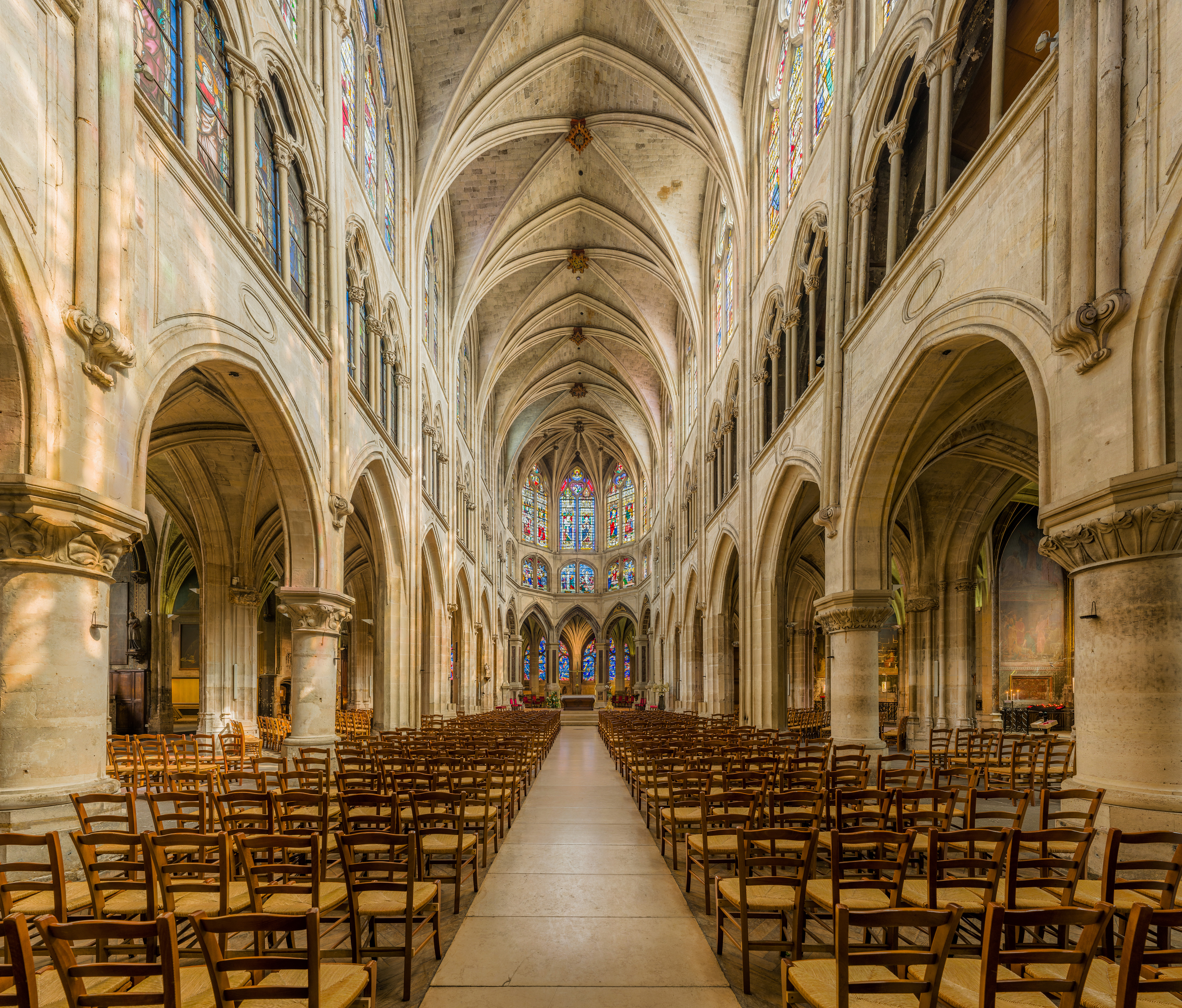 The nave of Saint-Séverin, Paris in Paris, France.